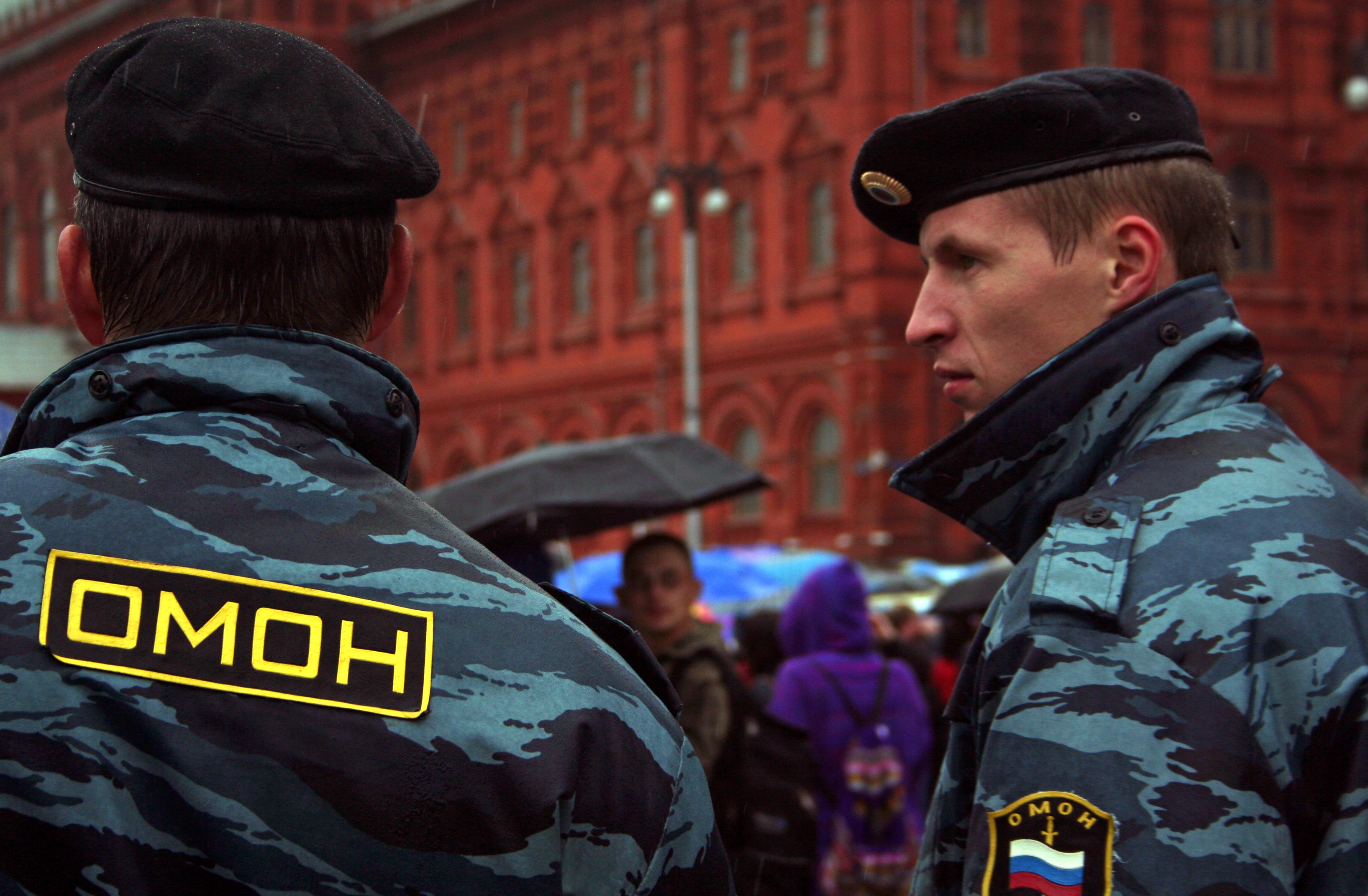 Soldiers of OMON (Russian: Отряд милиции особого назначения; Otryad Militsii Osobogo Naznacheniya, "Special Purpose Detachment of Militsiya"), the special forces of the Russian Ministry of the Interior, in Red Square, Moscow.